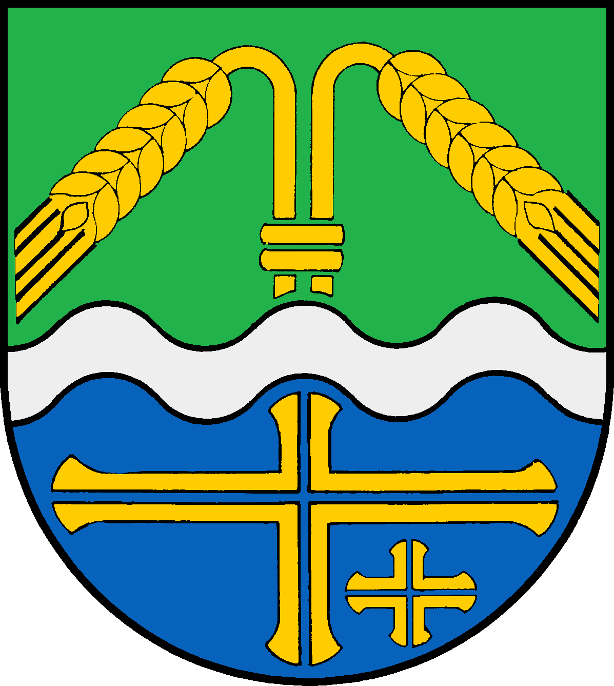 Coat of arms of the municipality Hamberge in Schleswig-Holstein, Germany.